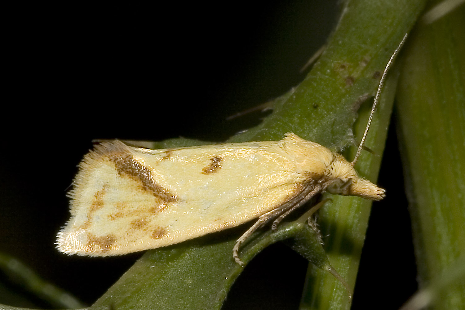 Agapeta hamana (Linnaeus, 1758)